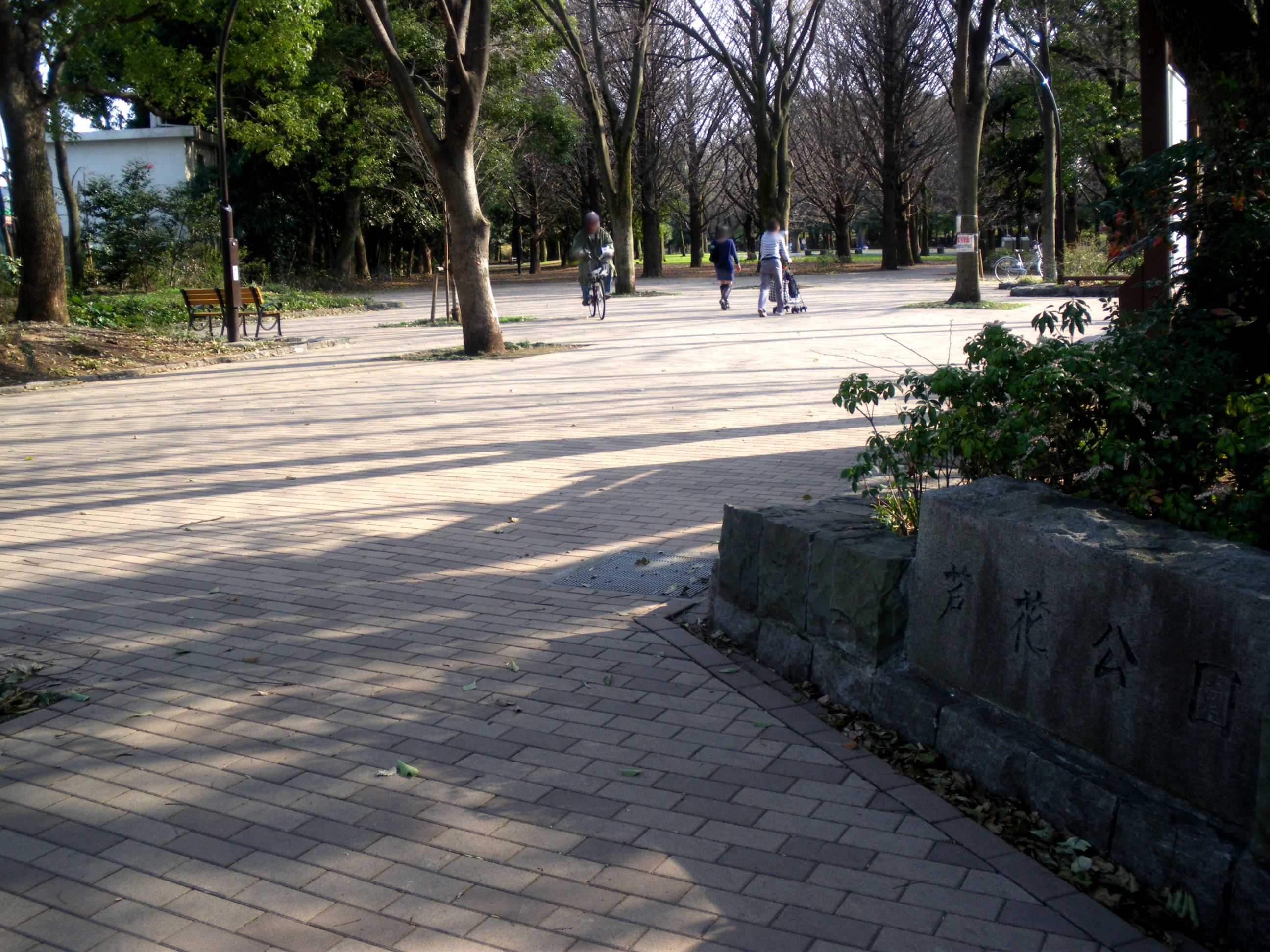 Roka Park entrance(Kasuya,Setagaya,Tokyo)